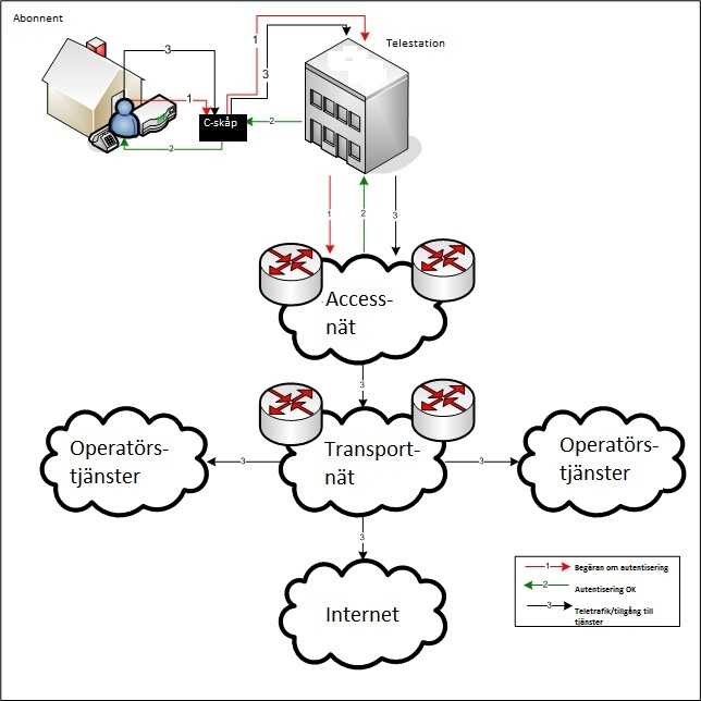 1: End-user's CPE (Customer Premises Equipment) makes an authentication request to the ISPs Access Network. 2: If successful, a success reply is returned to the CPE. 3: The end-user connects to and is able to traverse the ISPs Core Network and services.